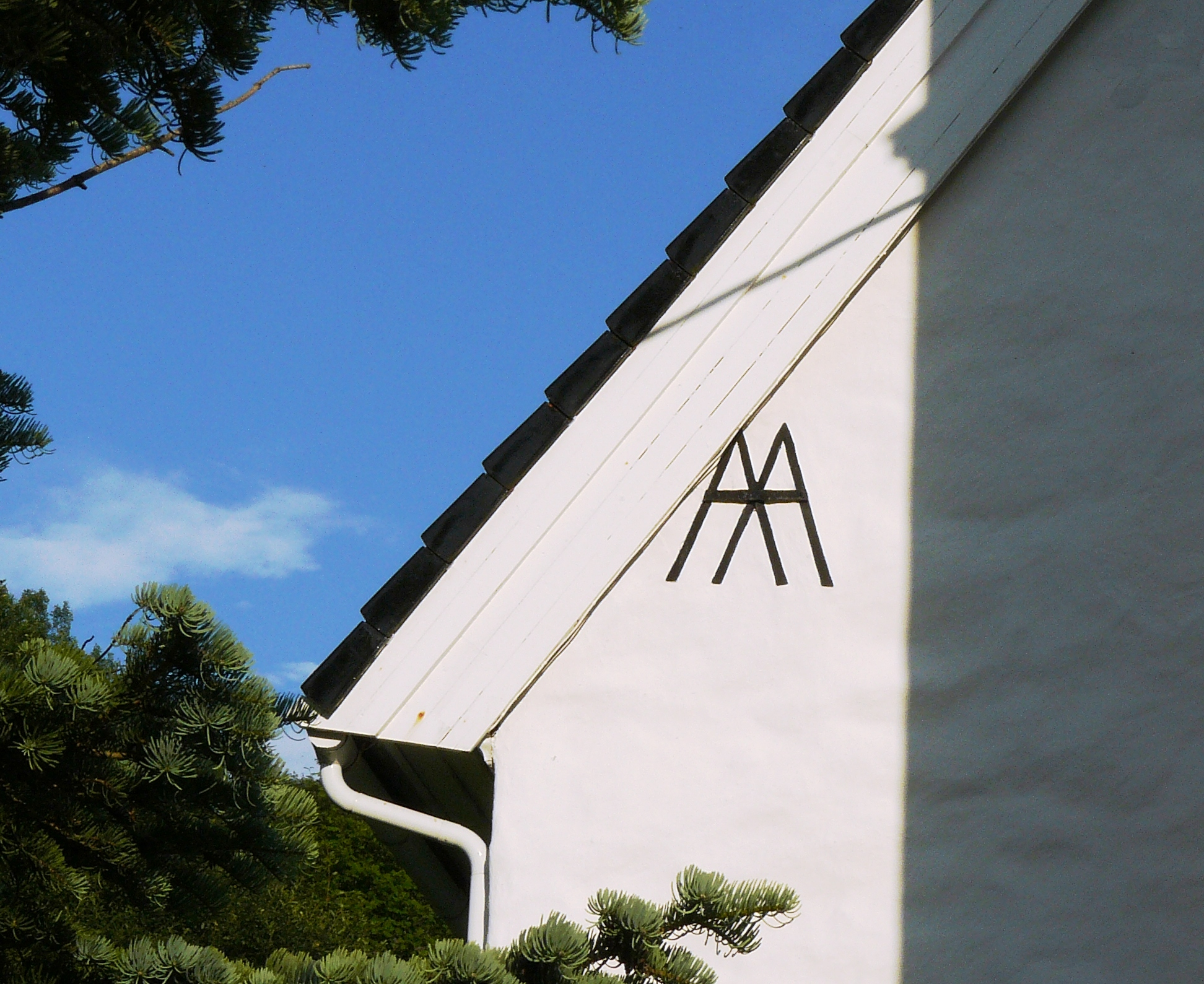 Vereide church - AA-signature on the entrance wall.jpg